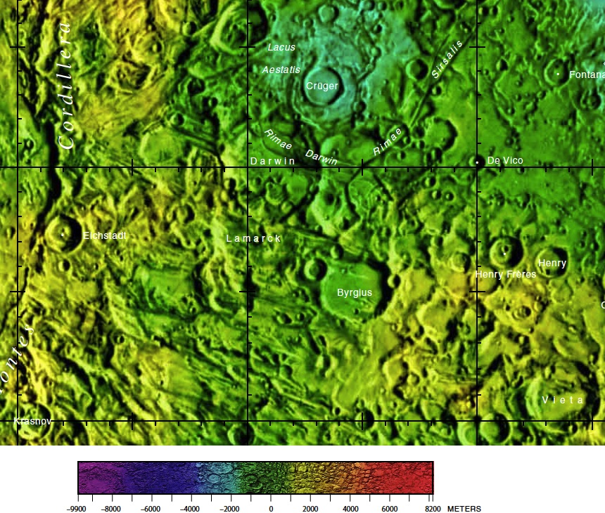 Part of the USGS near side lunar chart/